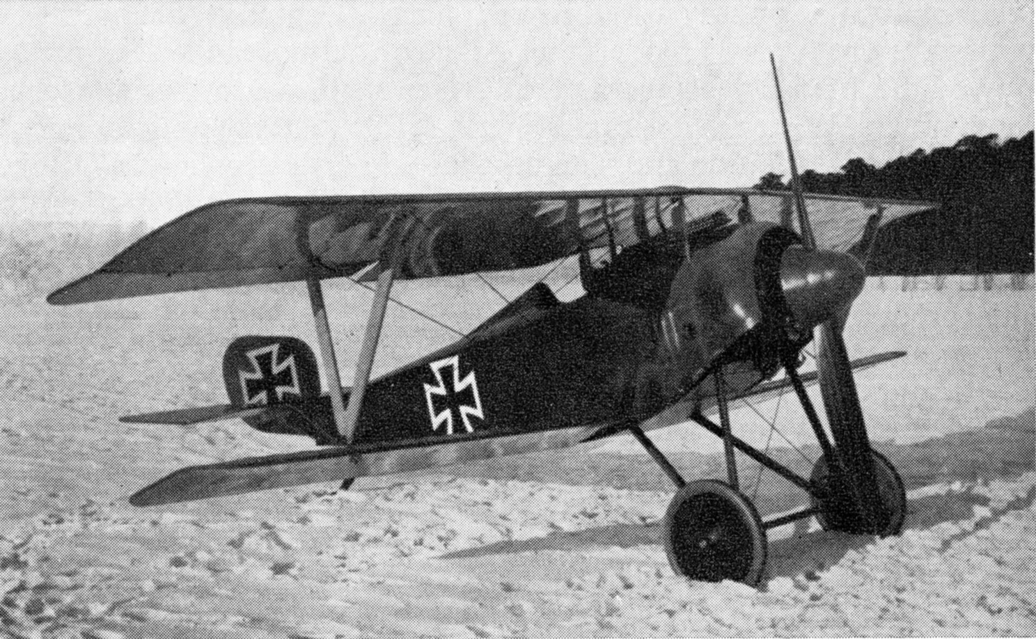 Late production SSW D.I (Nieuport 17 copy) on snowy ground. 1917 style German national markings. Likely date c. December 1917.